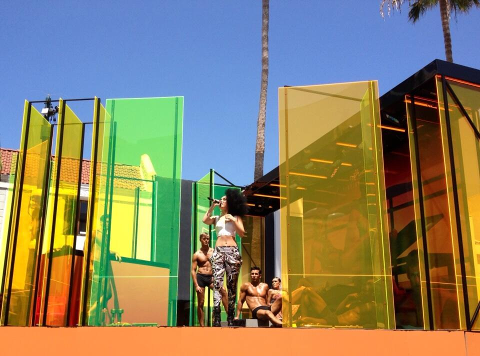 Kreesha Turner performing live in Santa Monica at Third Street Promenade.